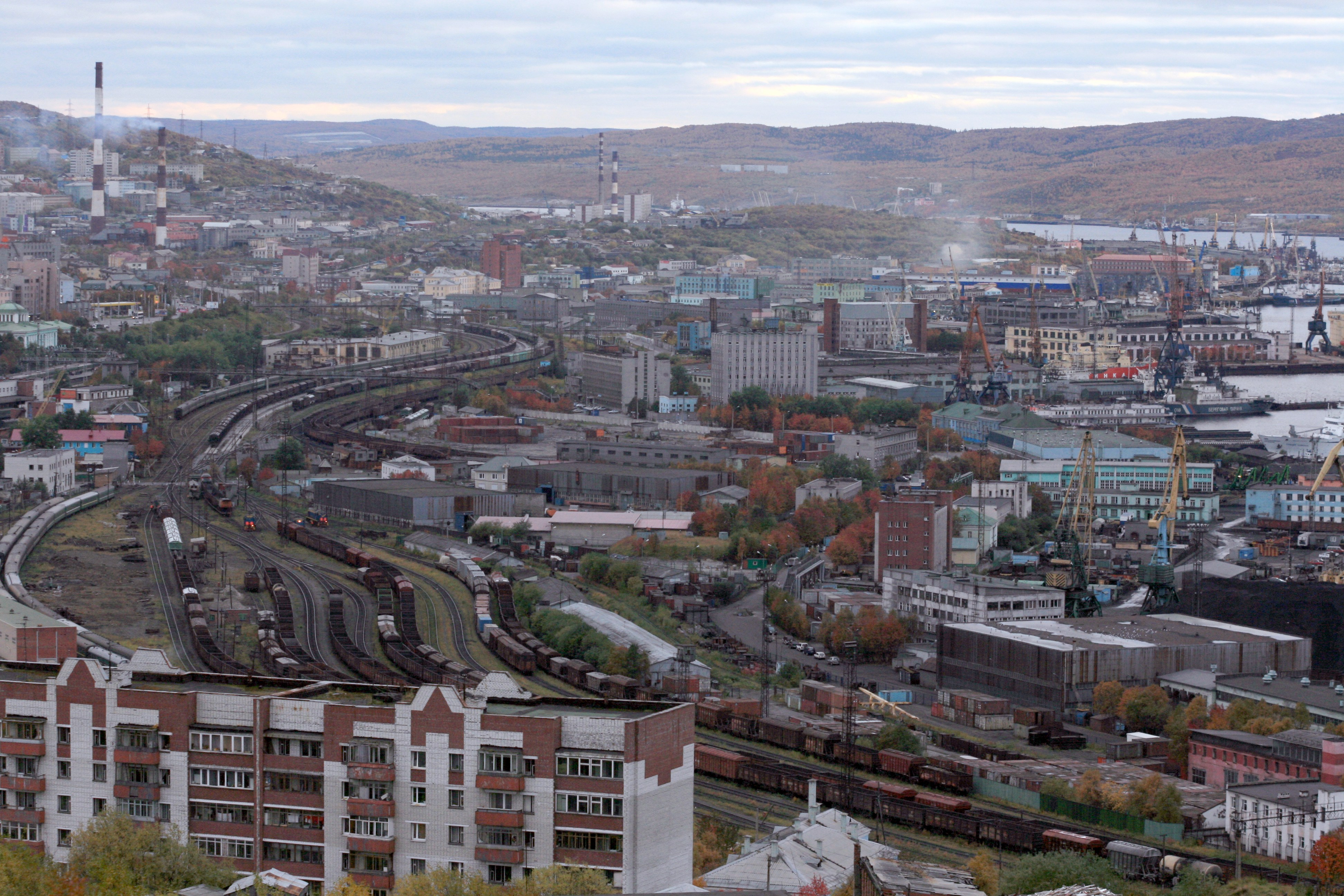 Port and railway terminal of Murmansk